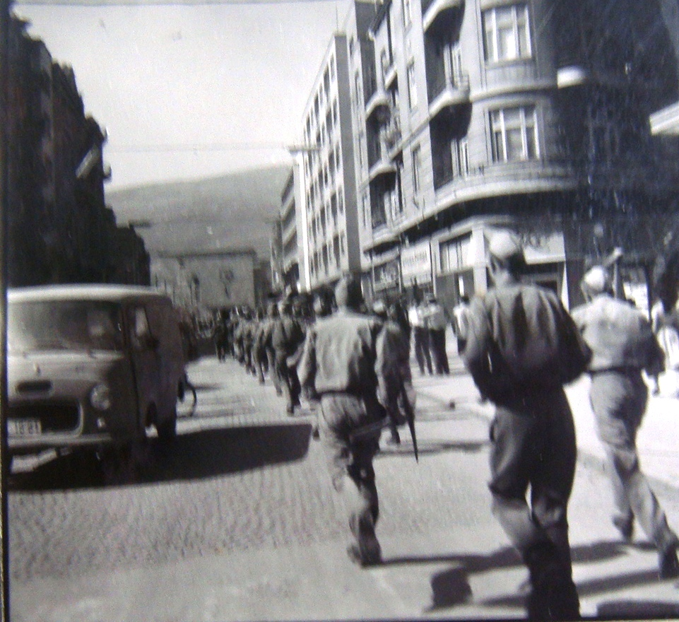 1963 Skopje earthquake: the Yugoslav People's Army, on Marshal Tito Street This media file is produced by Wikipedian in Residence in Category:Wikipedian in Residence at DARM in 2016.